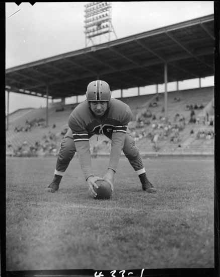 B.C. Lions football club, portraits, individual players, Gil Stear VPL Accession Number: 84780L Date: July 10, 1954 Photographer / Studio: Jones, Art Content: Part of a series 84780+ (63 photos) Topic: Sports Sports teams Football Football players Stadiums Costume Sports uniforms Location: British Columbia - Vancouver Copyright Restrictions: Public Domain